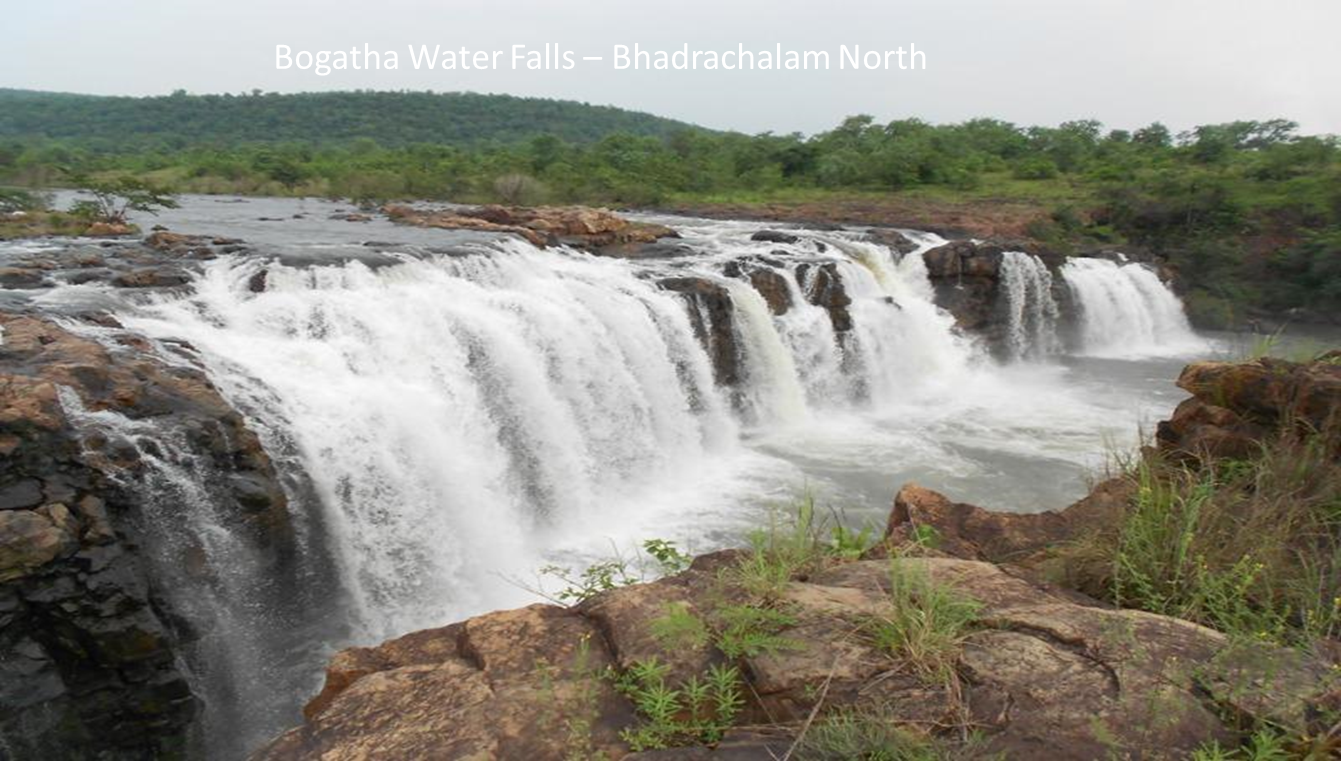 Bogatha Water Fall is located in Khammam District, Telangana